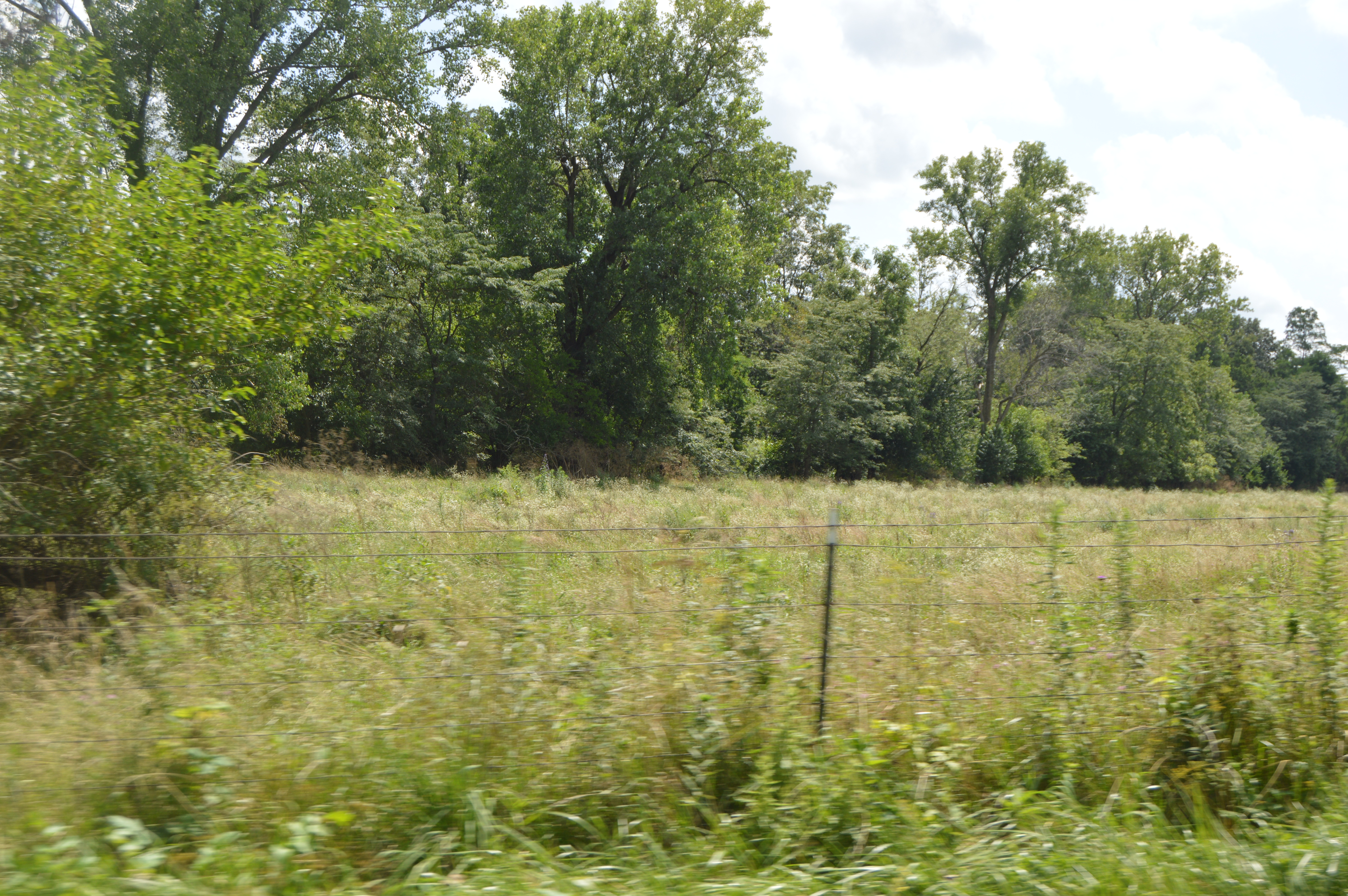 Overview of the John Roy Site, looking south from 1700 North Road (just west of 2950th Avenue) in Concord Township, Adams County, Illinois, United States. The site is a significant archaeological site and has been listed on the National Register of Historic Places.